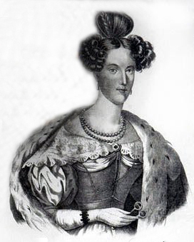 Maria Anna Carolina of Saxony, Grand Duchess consort of Tuscany (1799-1832), daughter of Maximilian, Crown prince of Saxony, first wife of Leopold II, Grand Duke of Tuscany.